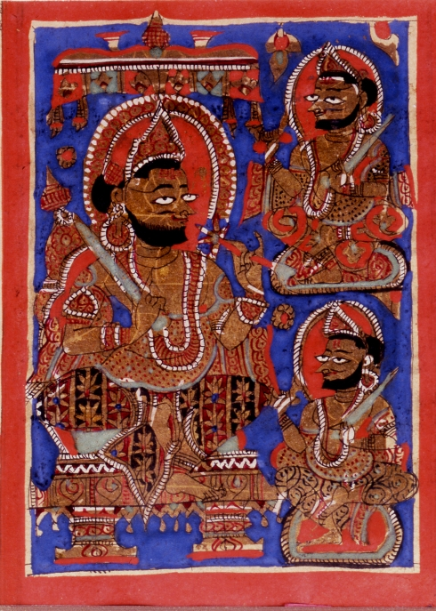 Cropped image from an illustrated page from a manuscript of the "Kalpasutra," which is one of the most important canonical works of the Shvetambara (white-clad) Jains. Of the three parts of the text, usually the first--known as the "Jinacharita," consisting of the lives of the Jain teachers known as "jina" (victor)--is profusely illustrated with succinct narrative details. However, it should be noted that the lives of the different Jinas share many narrative incidents and, hence, the illustrations are repetitive and stereotypical. Therefore, if these two illustrations were separated from the text, one could not be certain of their exact association with a particular Jina. The accompanying text, written in beautiful "nagari" script in seven lines, helps us to identify the scene as belonging to the life of Mahavira, the last and most honoured of the twenty-four Jinas. In the illustration, his father, King Siddhartha, is in conversation with two courtiers, who probably are getting instructions to go and summon the astrologers to interpret the dreams of his wife Trishala. The illustrations is typical of the style of painting that prevailed in Gujarat and Rajasthan between the 14th and 16th centuries and has come to be designated as the "Western Indian" style. The style is characterized by strong, bold figural forms that are distinguished by their angularity and by the unnatural projection of the further eye, the use of minimal landscaping and stylized natural elements, and the preference for luxuriant fabrics. The coloring is dominated by a rich, lustrous blue, deep red, and gold, which create a very sumptuous visual effect.